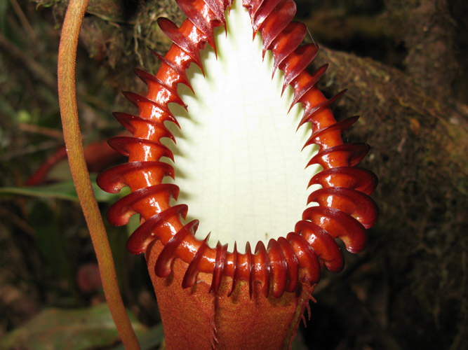 N.edwardsiana